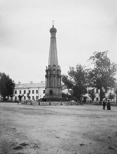 Chapel of Monument of 1812 War in Polatsk (1850-1931)